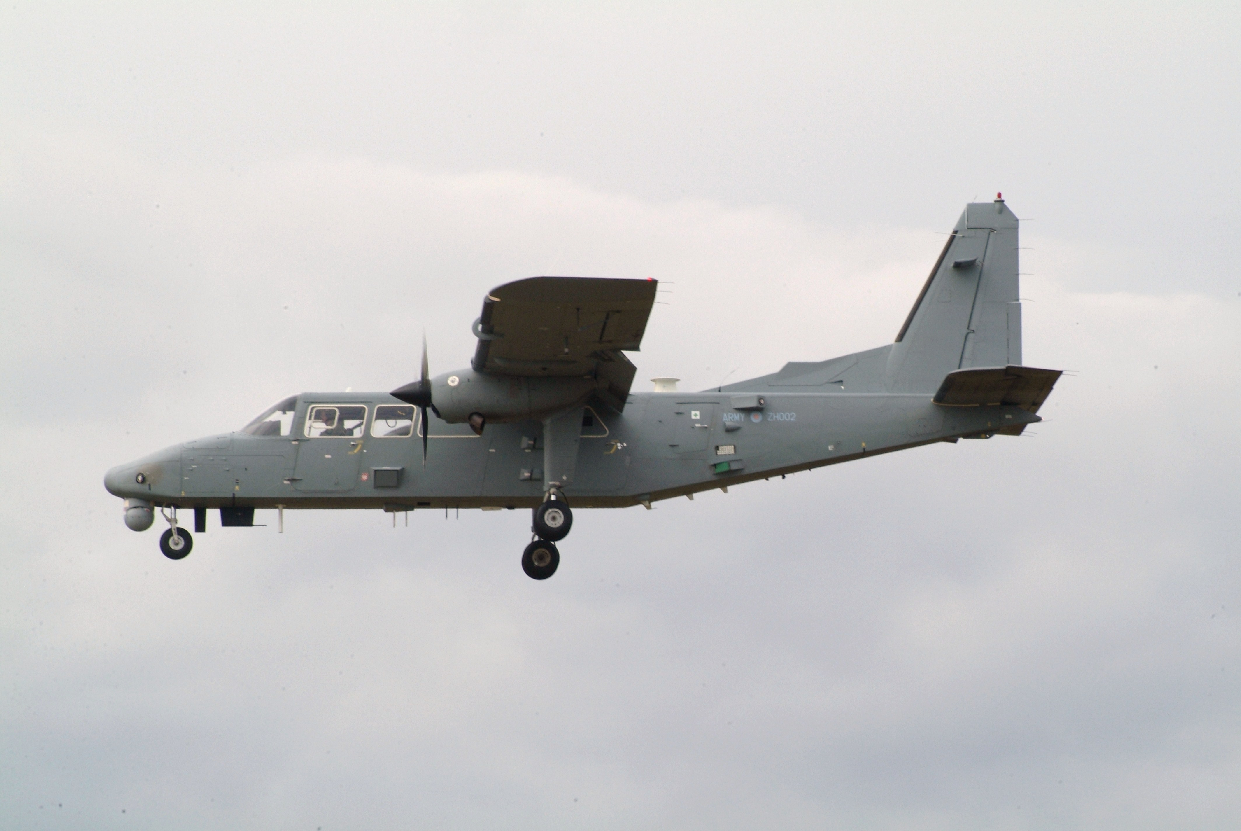 British Army's 651 Sqdn. landing at RAF Waddington